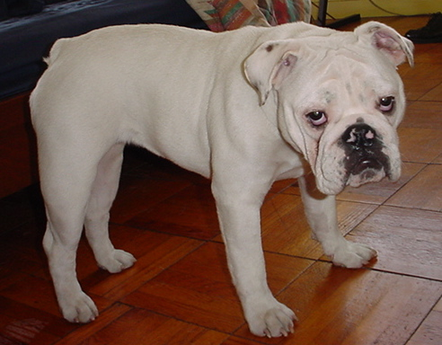 attempt at more encyclopedic image for Bulldog page, a 9 month old bulldog female, spayed, standing.